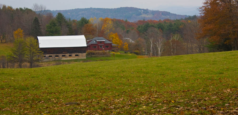 View of Cossingham Farm, near Bragg Hill Road in Norwich, Vermont in autumn.